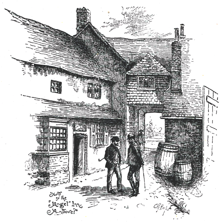 A sketch of the courtyard of The Angel Inn, Andover. The sketch is typical of Harper's style; although the source gives a date of 1890, the sketch is reminiscent of those published by Harper in 1906 in his The Old Inns of Old England.